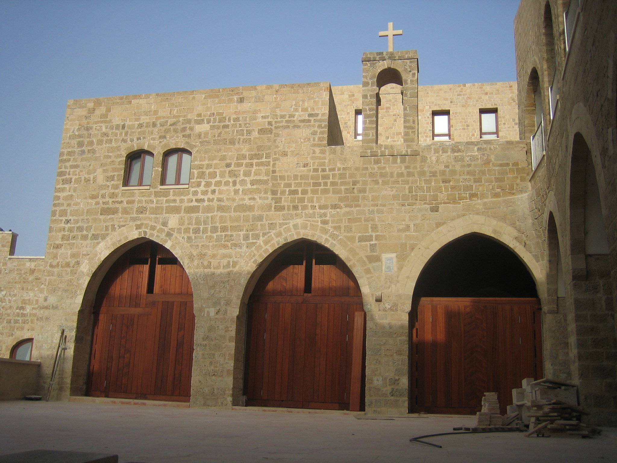 The Armenian church at the Saint Nicholas Armenian Monastery in Jaffa, Israel.